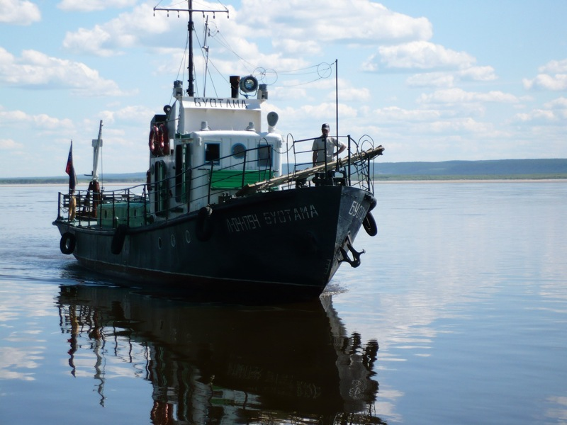 Boat on the Lena River near Yakutsk, Sakha, Siberia